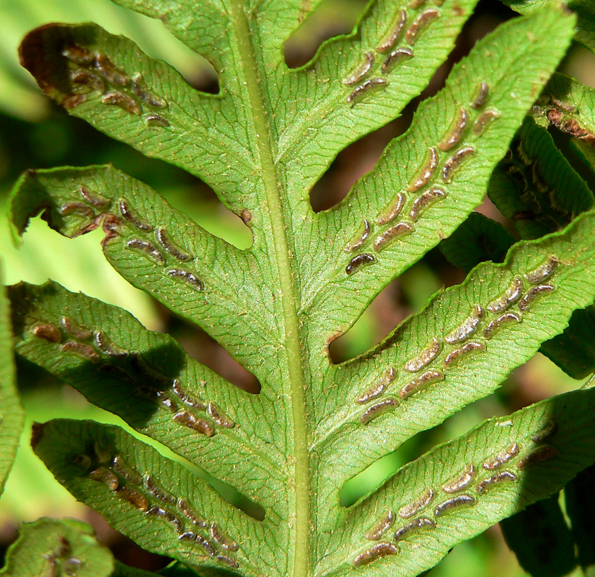 Woodwardia fimbriata in north fork of Pine Creek Canyon, Red Rock Canyon, southern Nevada.